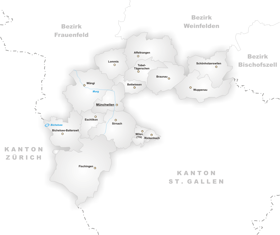 Municipalities of District Münchwilen